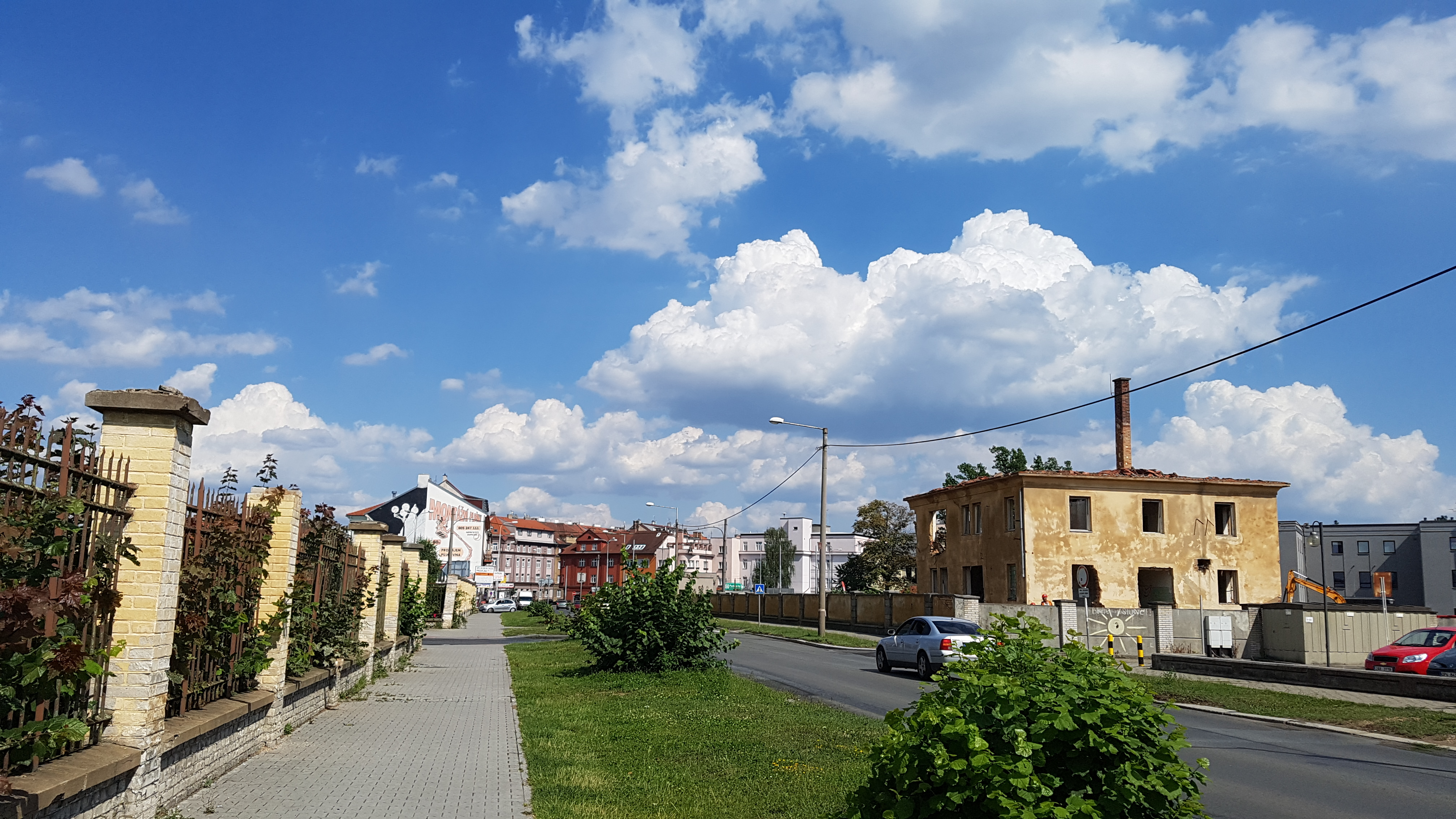 Kaplířova street in Pilsen (Plzeň), view to Klatovská třída